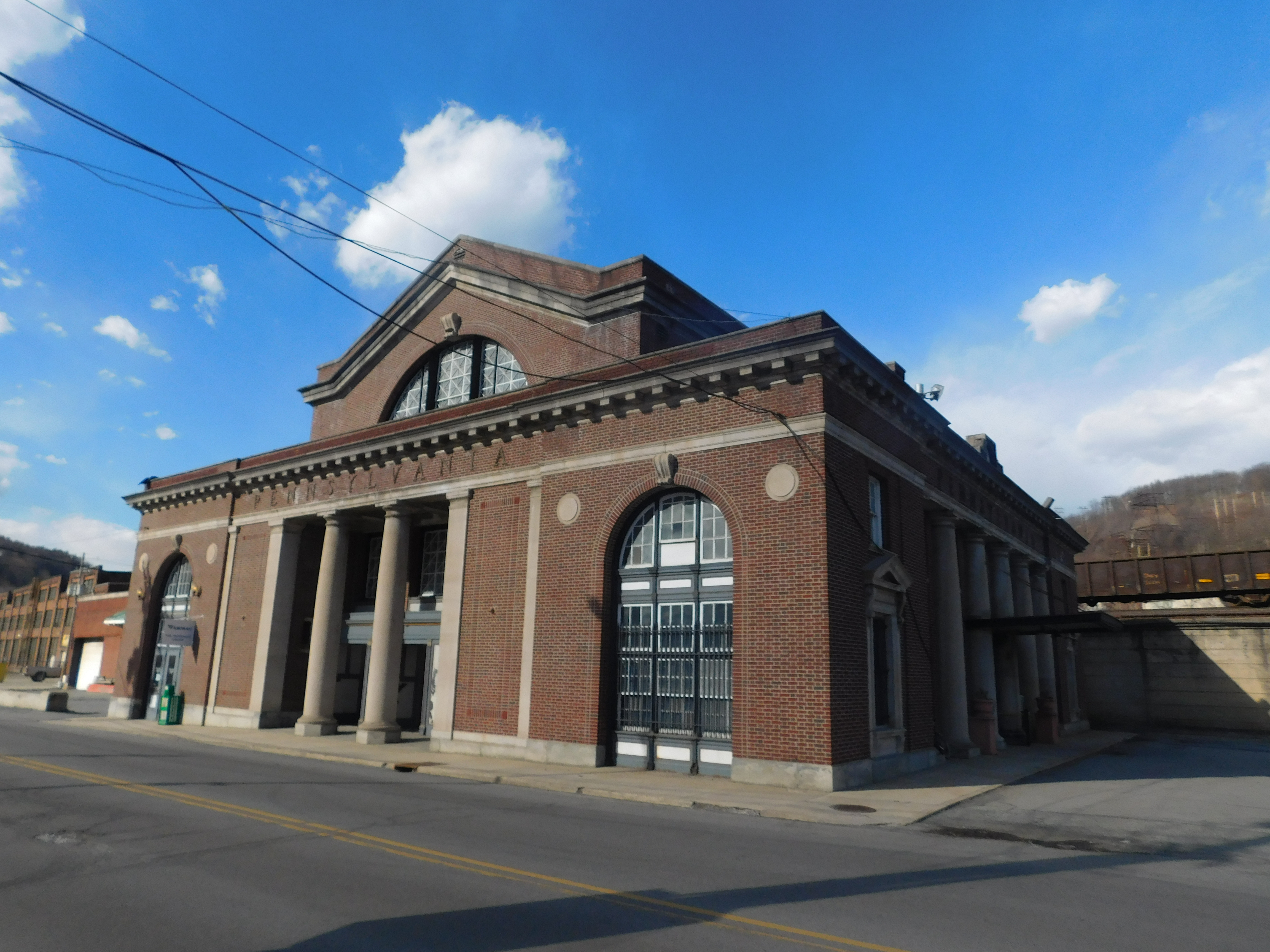 Johnstown, Pennsylvania's Amtrak and Pennsylvania Railroad station in March 2016.